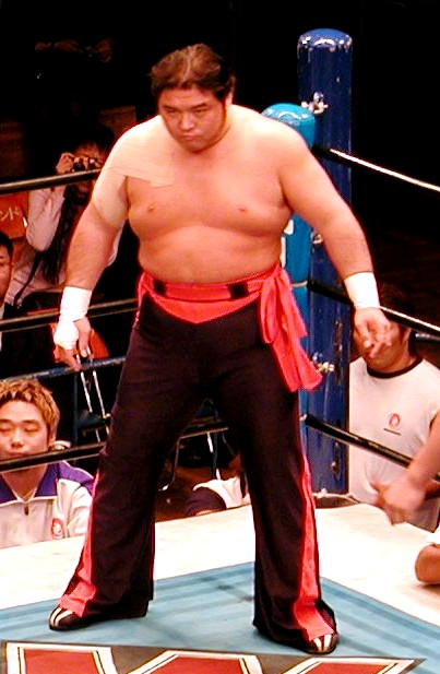 Shinya Hashimoto at WJ event, at the Korakuen Hall on January 5, 2004.